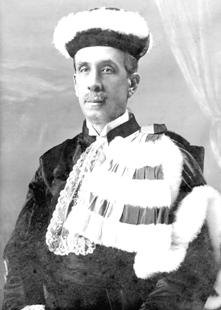 Carlos Chagas wearing the academic gown of professor of the Tropical Medicine Chair of the Rio de Janeiro Faculty of Medicine. May 23rd. 1925.